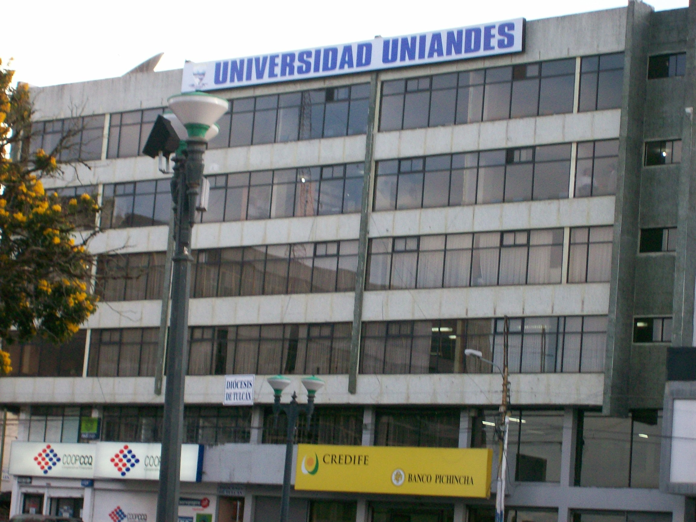 Uniandes Tulcan